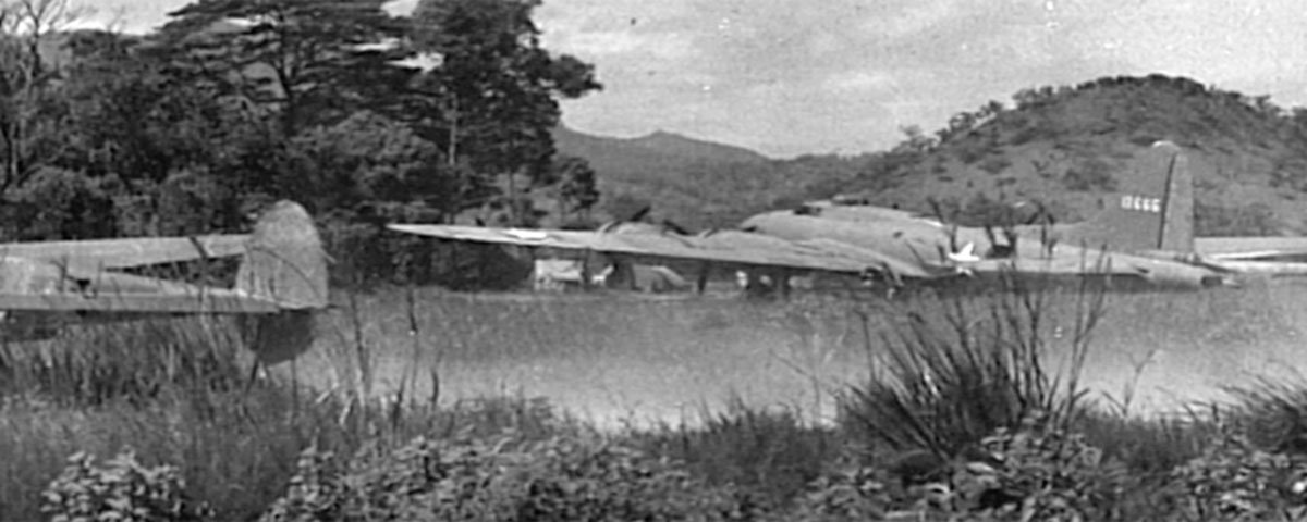 Only known photo of bomber 666. B-17E bomber, "Lucy" 41-2666 parked at parked at 14-Mile Drome (Schwimmer) near Port Moresby, New Guinea. The image appears in the last few seconds of a military film from the 8th Photo Reconnaissance Squadron.